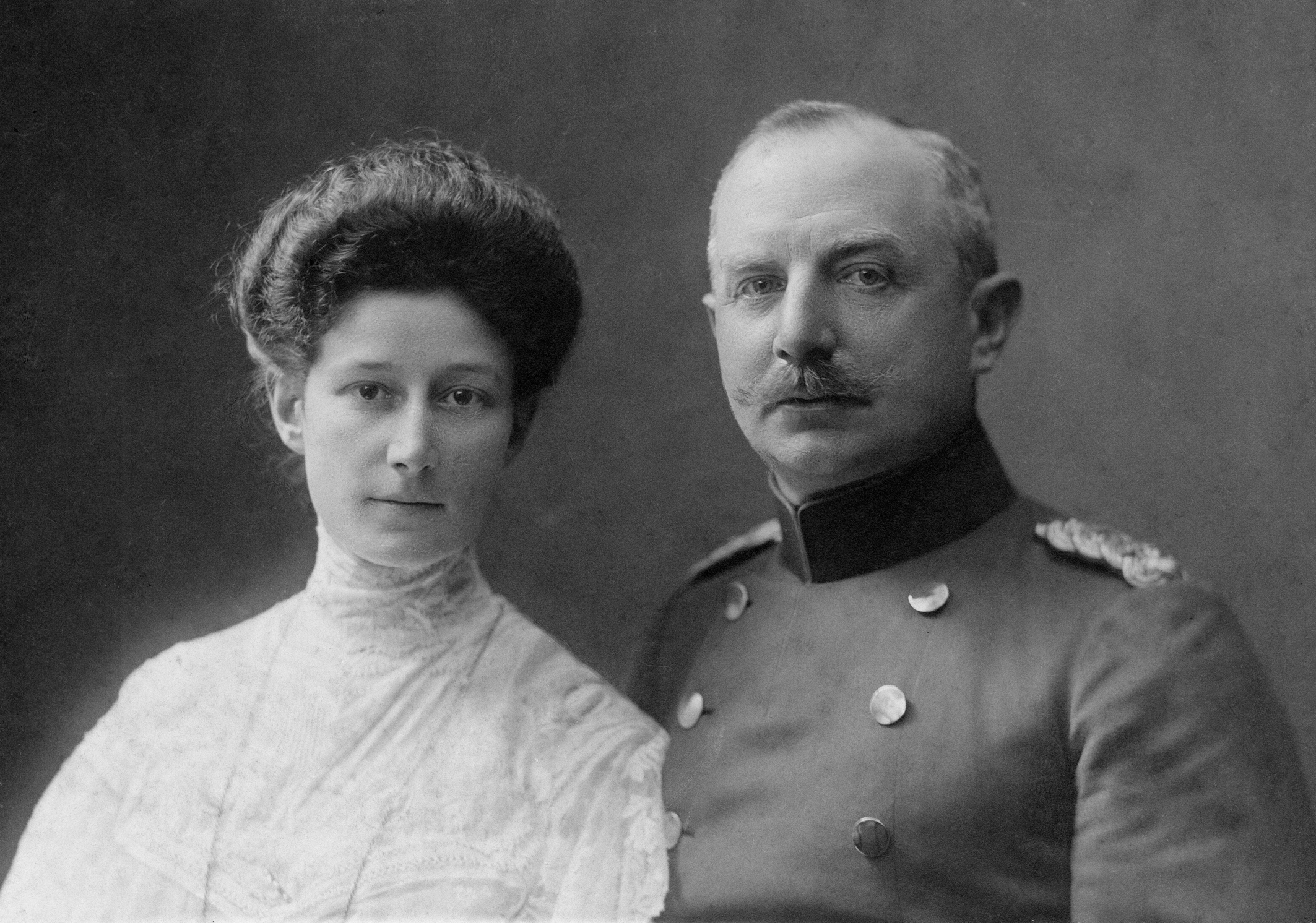 Otto von der Decken and his Wife Ella